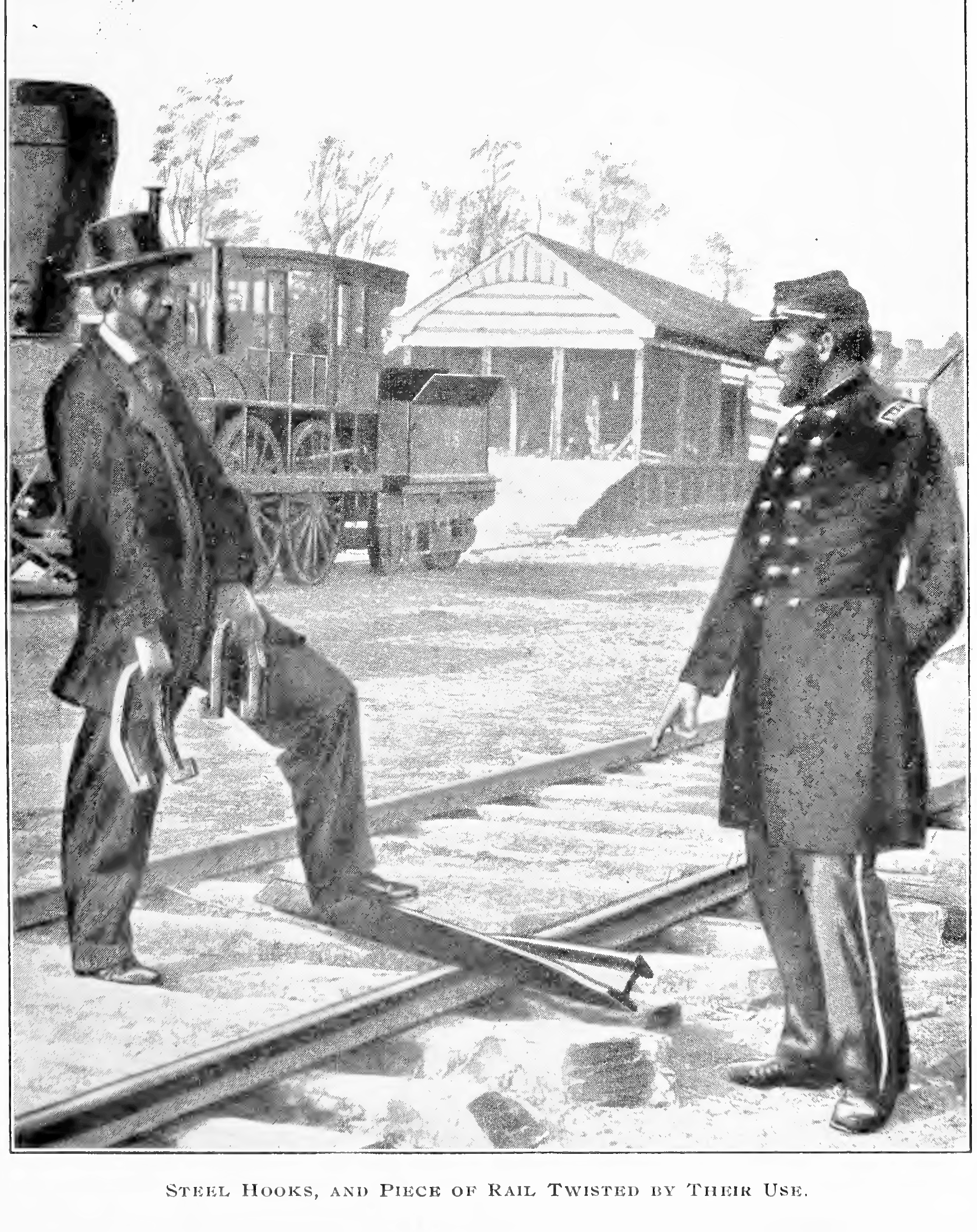 Rail hooks used for twisting and destroying railroad iron, developed by Eben Smeed